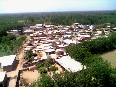 Beautiful Image Of a small Village Aurangzebpur , Saharanpur , 247231